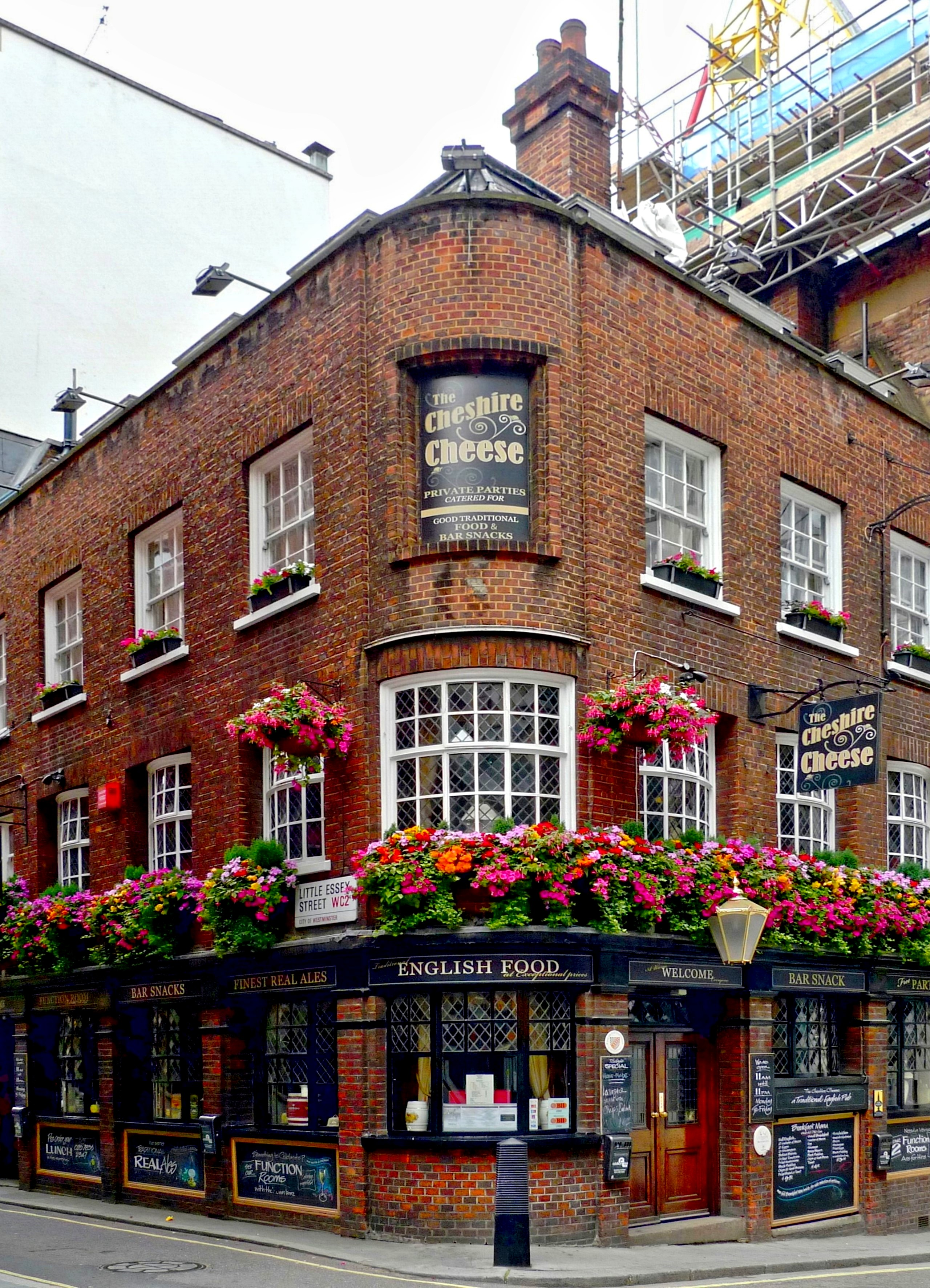 Hidden away little pub. Address: 5 Little Essex Street. Owner: ([ website]). Links: Fancyapint Beer in the Evening Dead Pubs (history)